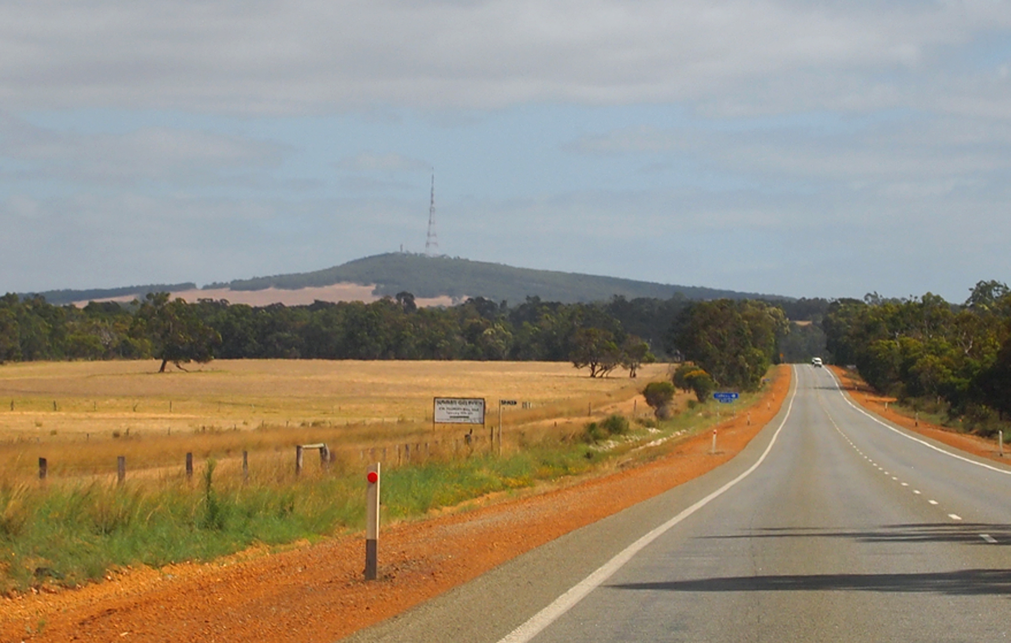 View of Mount Barker from south, Albany Highway, WA